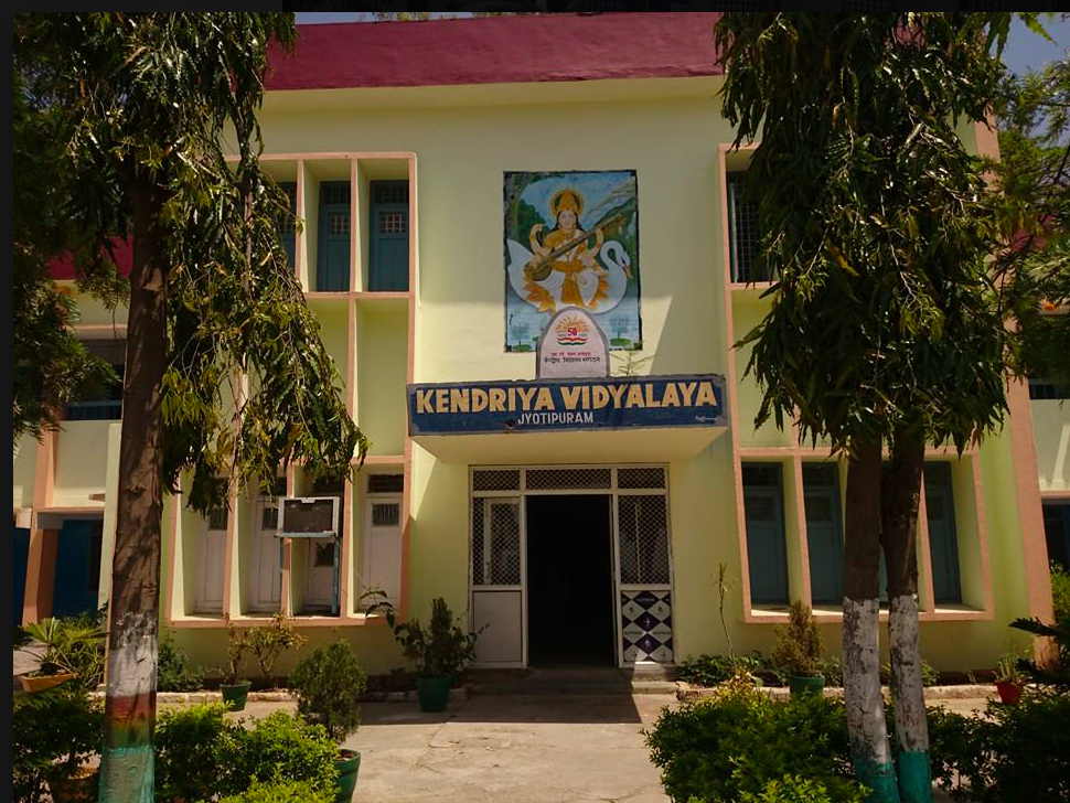 Administration block of KV, Jyotipuram